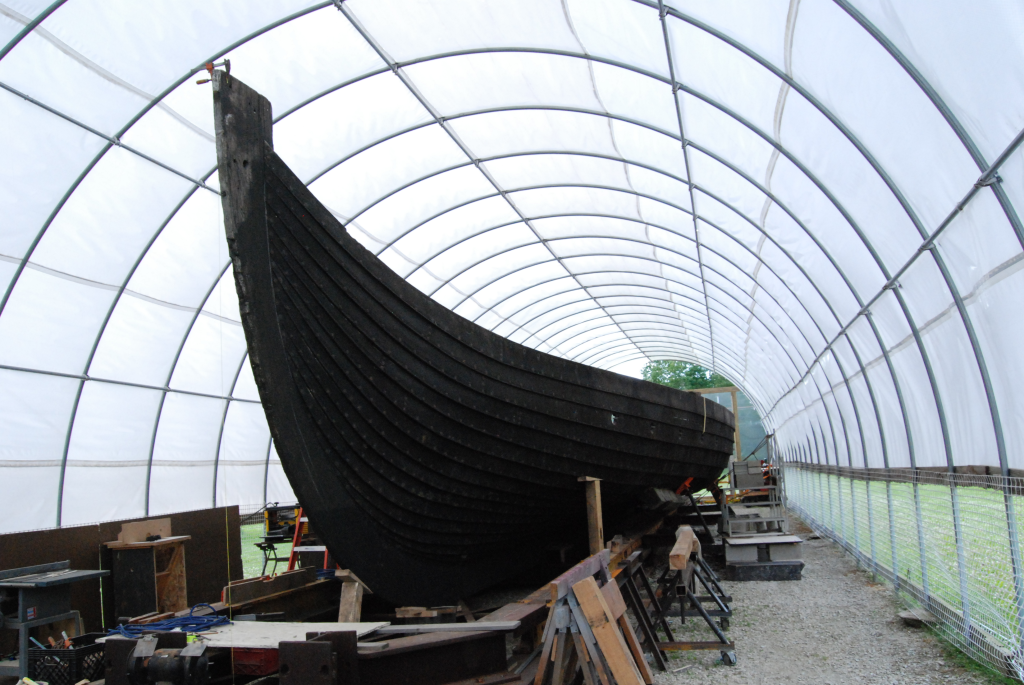 Side view (taken from front) of Viking 1 ship from the Colombian Exhibition